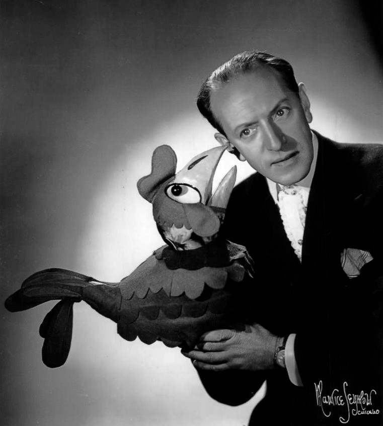 Publicity photo of Senor Wences and one of his puppets, Cecilia Chicken.